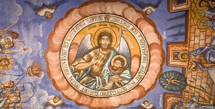 Frescos from Dolnopasarel monastery, painted by painters Mihail Blagoev and Hristo Blagoev in XIX century.